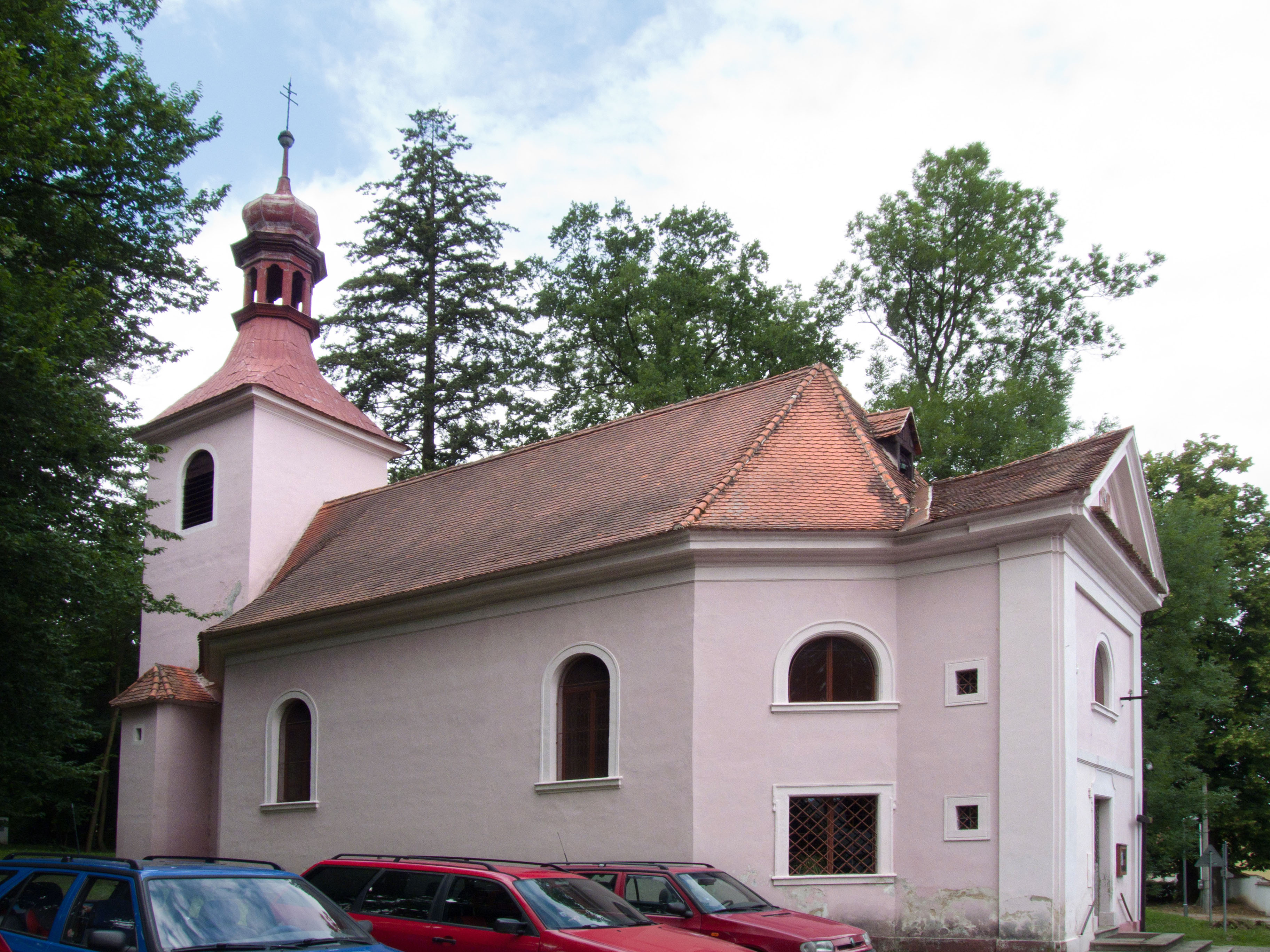 Holy Trinity church in the village of Libníč, České Budějovice District, Czech Republic.